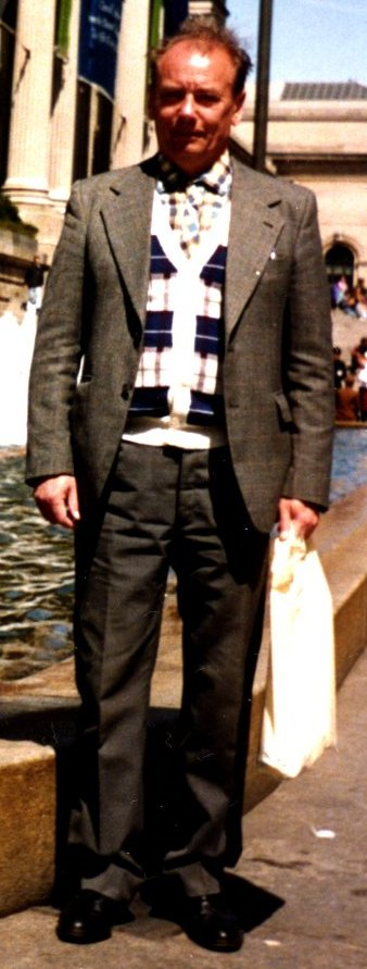 Visiting NY in 1993.